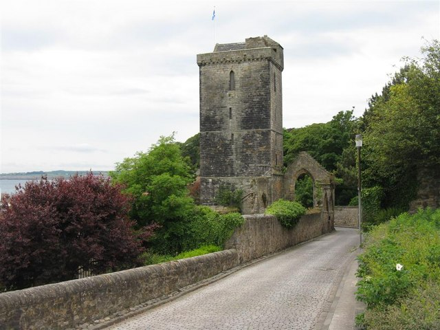 The tower of St Serf's church The remains of an early 16 century church.